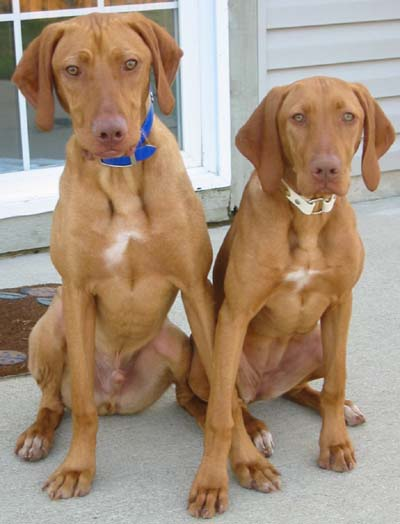 2 Smooth-haired Vizslas Rosco(9 months) & Daisy(5 months)